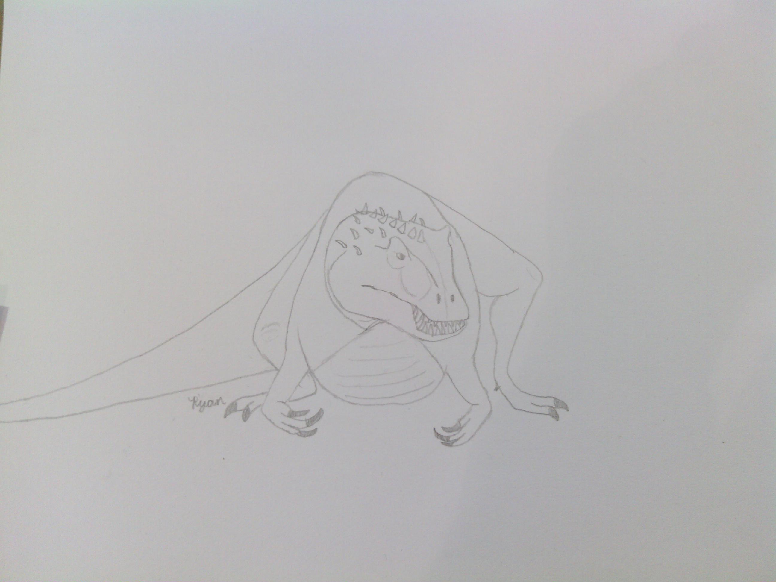 Allosaurus Fragilis